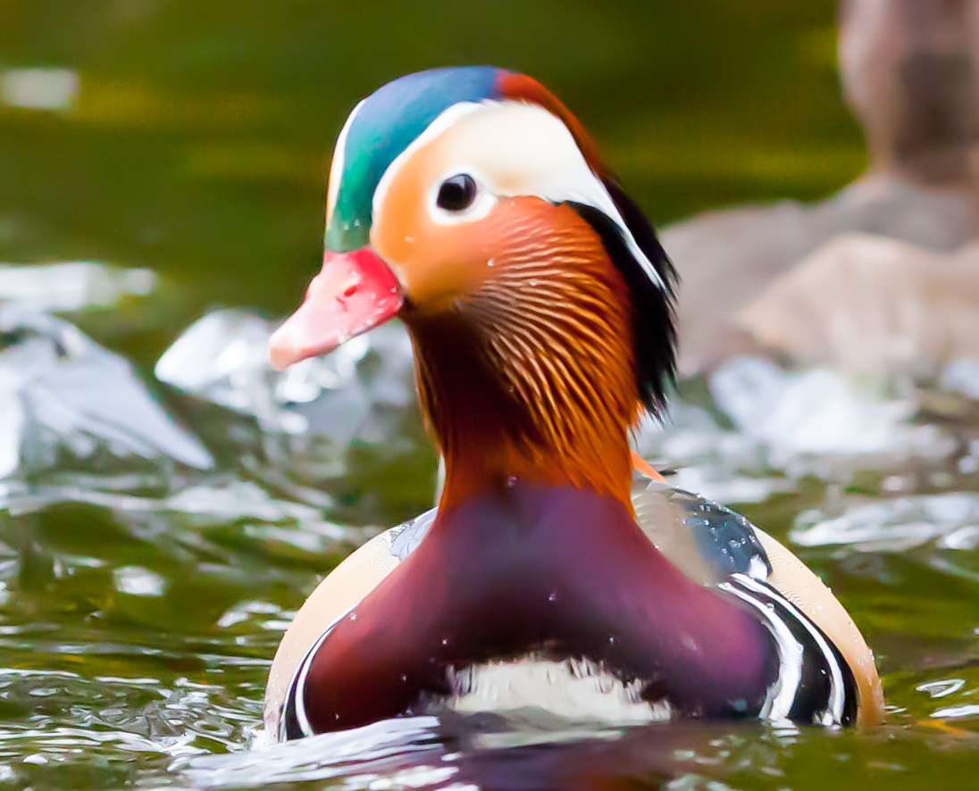 Mandarin drake (Aix galericulata) at Bushy Park, Dublin.